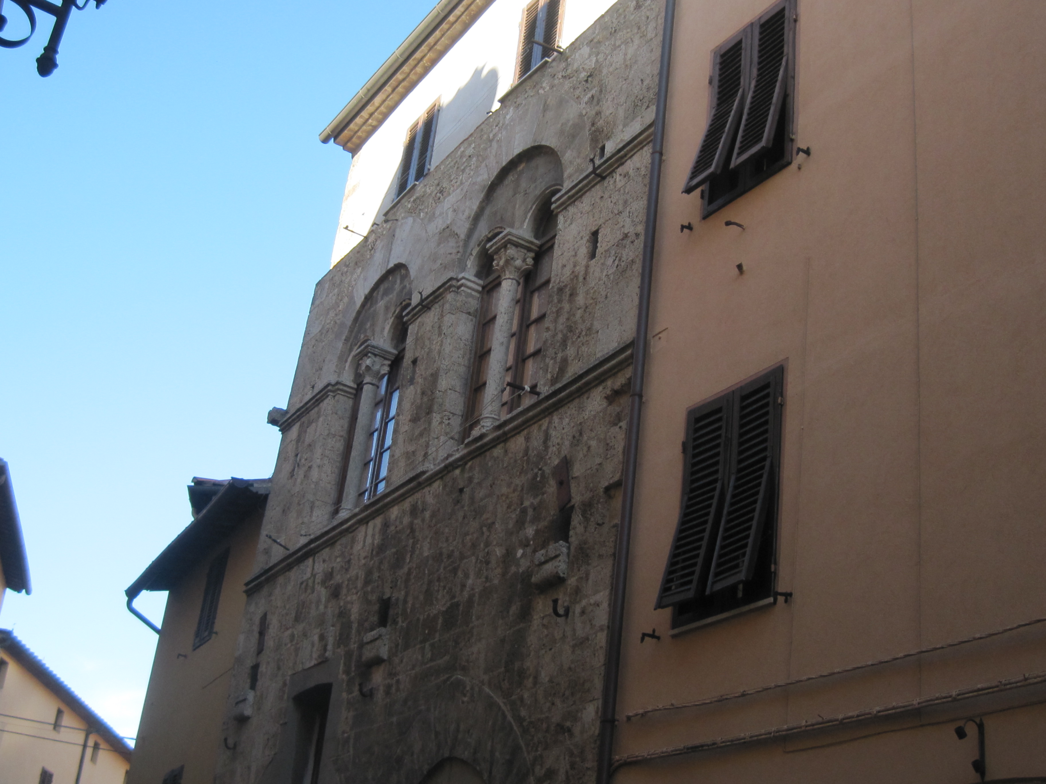 Casa Fedi in Massa Marittima, Grosseto